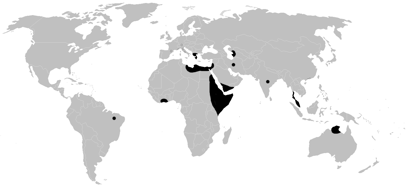 Cithaeronidae habitat distribution, drawn after Platnick: World Spider Catalog 7.0. This is not at all a precise rendering of the distribution! If you have better information, please replace this map, or send me the info, and i will redraw it.